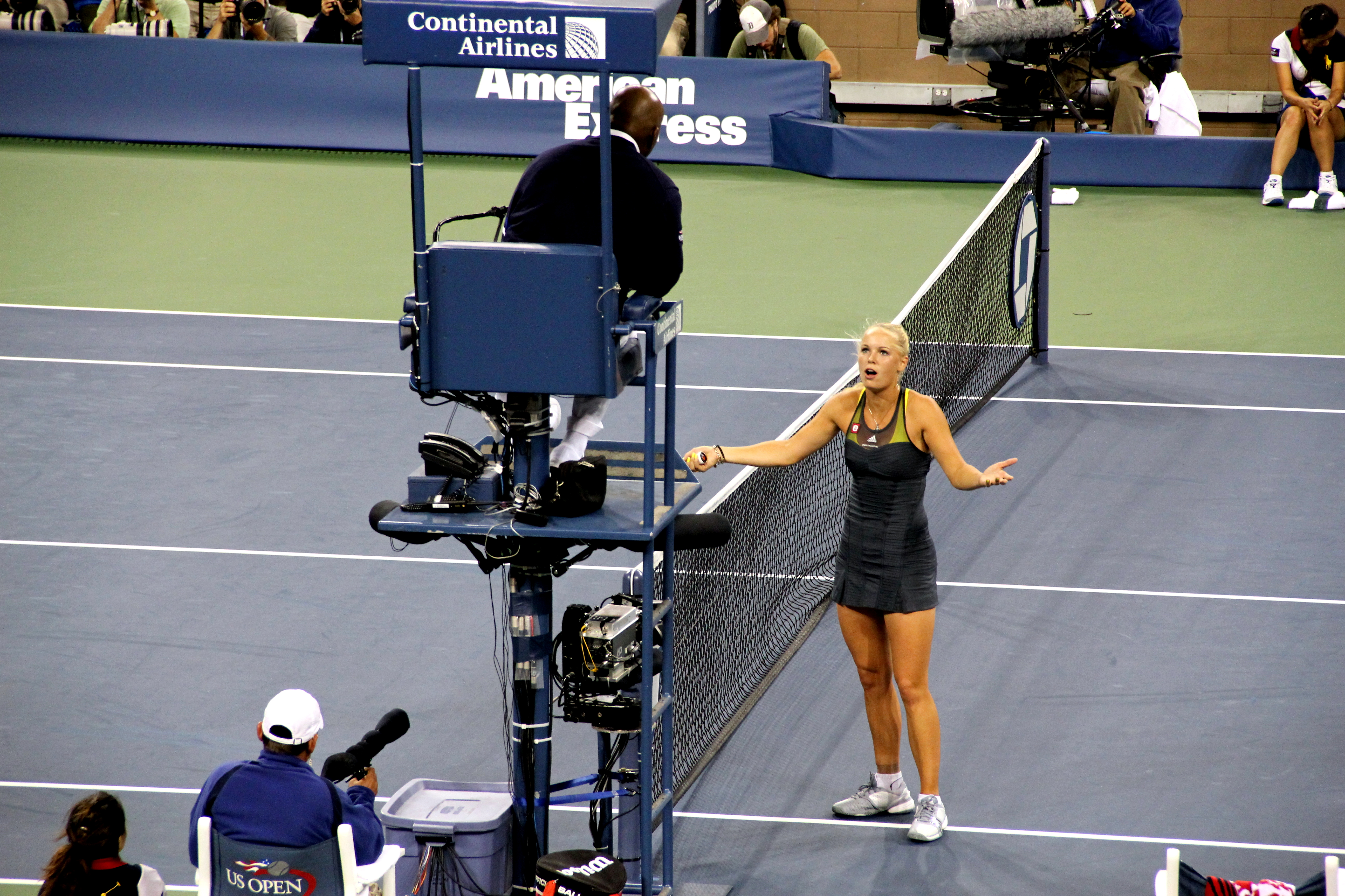 Caroline Wozniacki on Wednesday at the US Open where she won against Dominika Cibulkova. The Cosmopolitan is in New York for the 2010 US Open, inviting attendees and guests to experience signature views from our Overlook and in our custom designed suite with prime-stadium seating. For more information on The Cosmopolitan visit